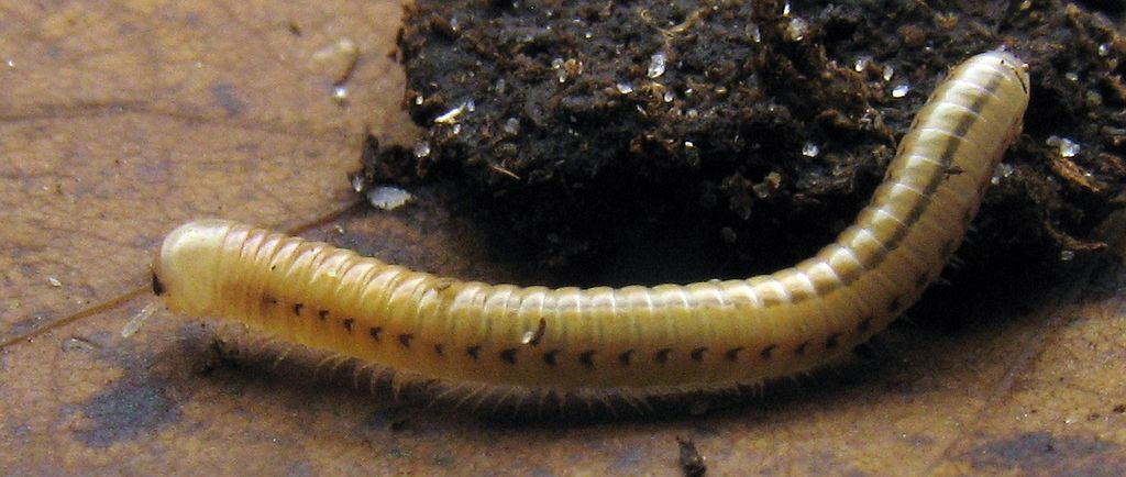 Living individual of Paraspirobolus lucifugus in the Hamburg Botanical Garden.